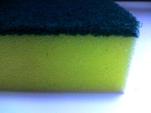 A close-up of one corner of a urethane sponge (ウレタンスポンジ).